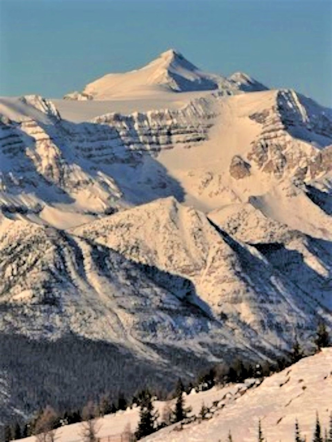 Mt. Balfour from near the top of the Ski Louise ski resort. The normal route is up the right side (out of view from here), to the col and around the left side, gaining the ridge facing us here about halfway up, and follow the ridge to the summit.